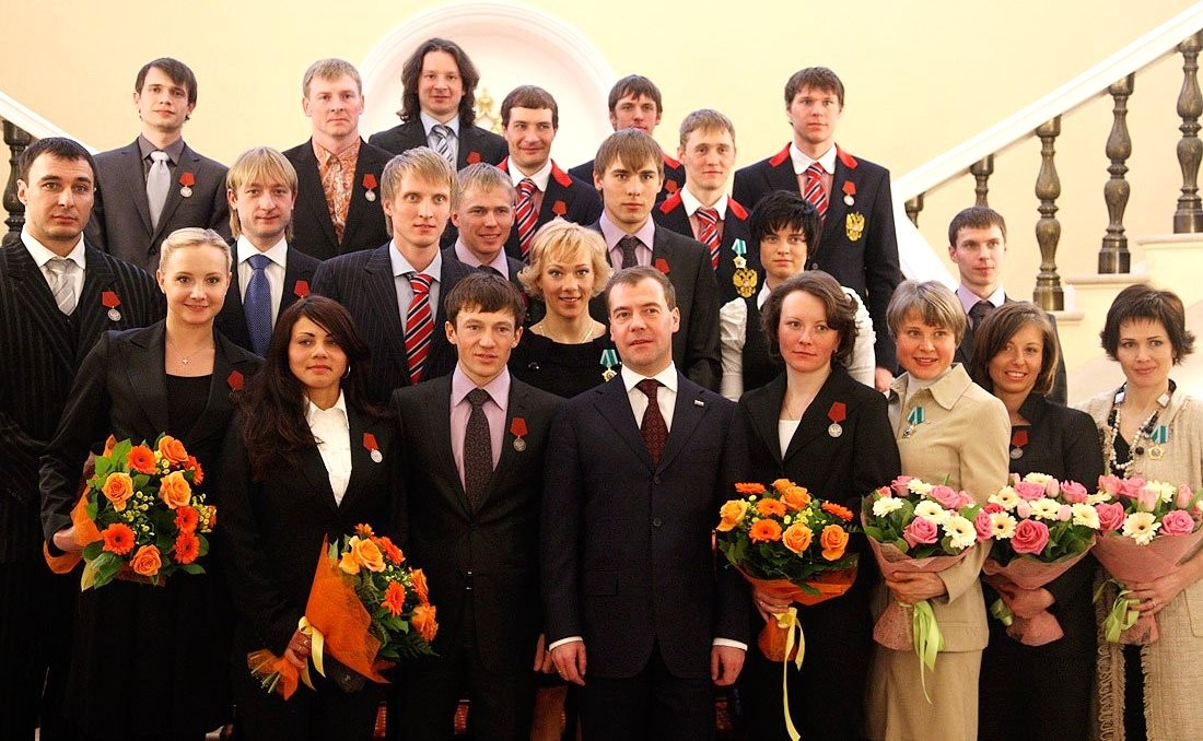 Dmitry Medvedev with sportspeople